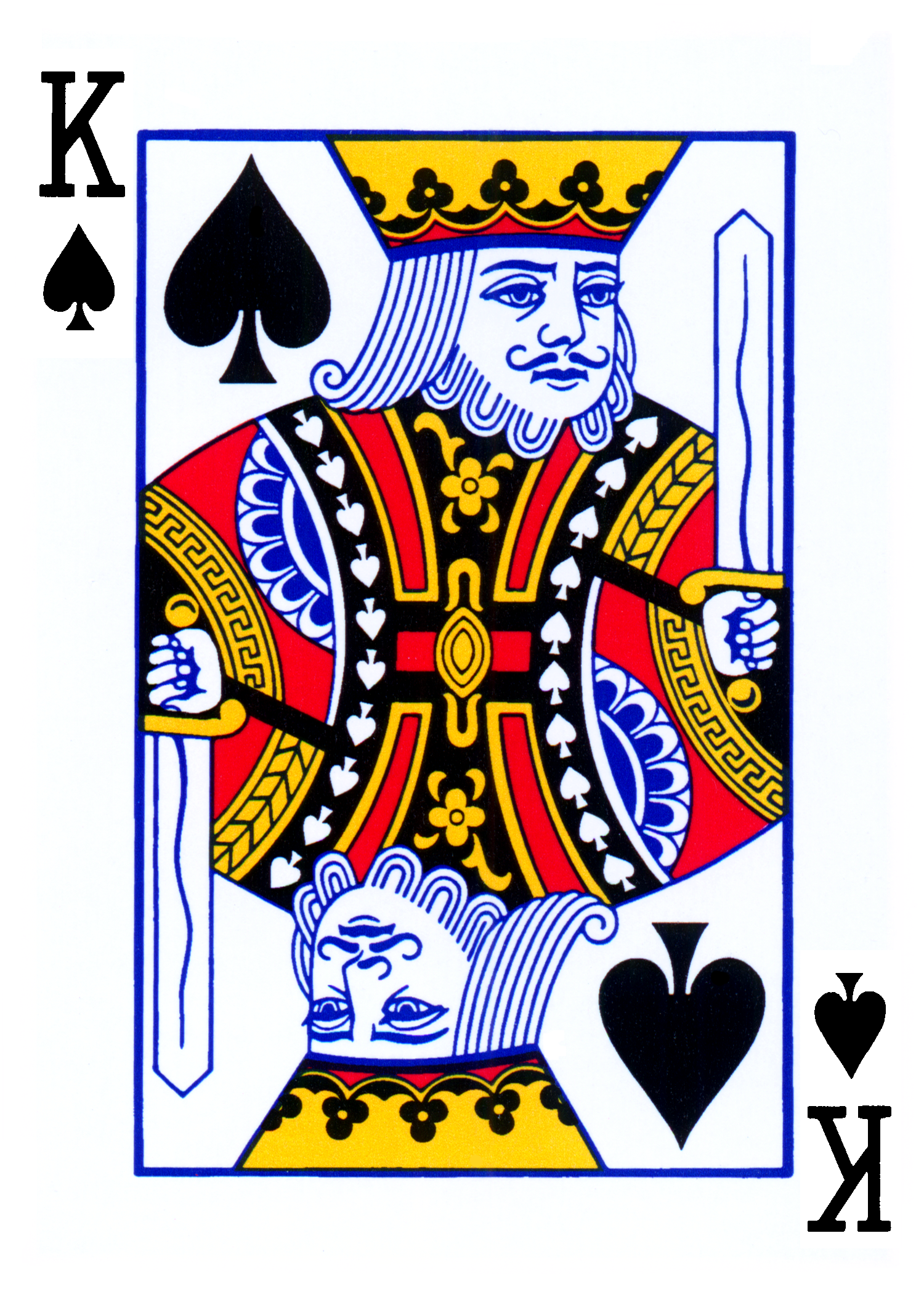 A Playing card: king of spades , from poker deck, in small PNG format.